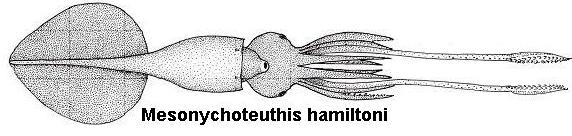 Colossal Squid